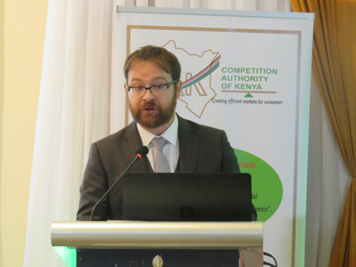 This is a photograph of Professor Peter Whelan delivering a keynote address at the Kenyan Competition Authority (Nairobi, Kenya) in September 2017.